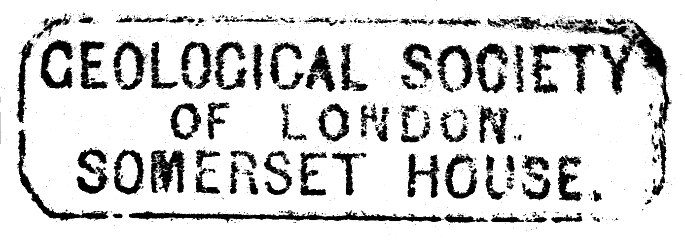 Geological Society of London Exlibris